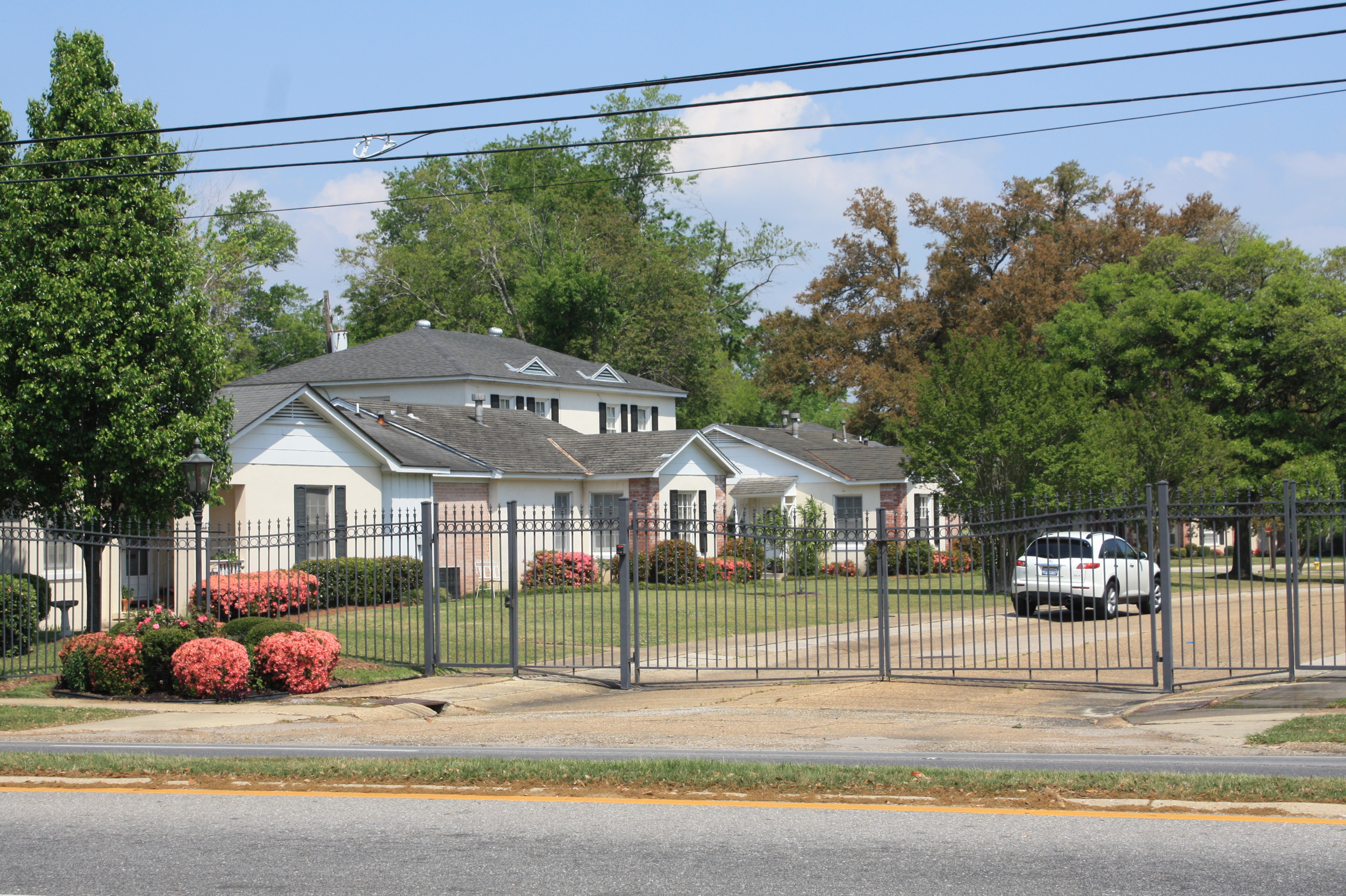 The D'Iberville Apartments in Mobile, Alabama, United States. Built in 1943. The complex is individually listed on the National Register of Historic Places.